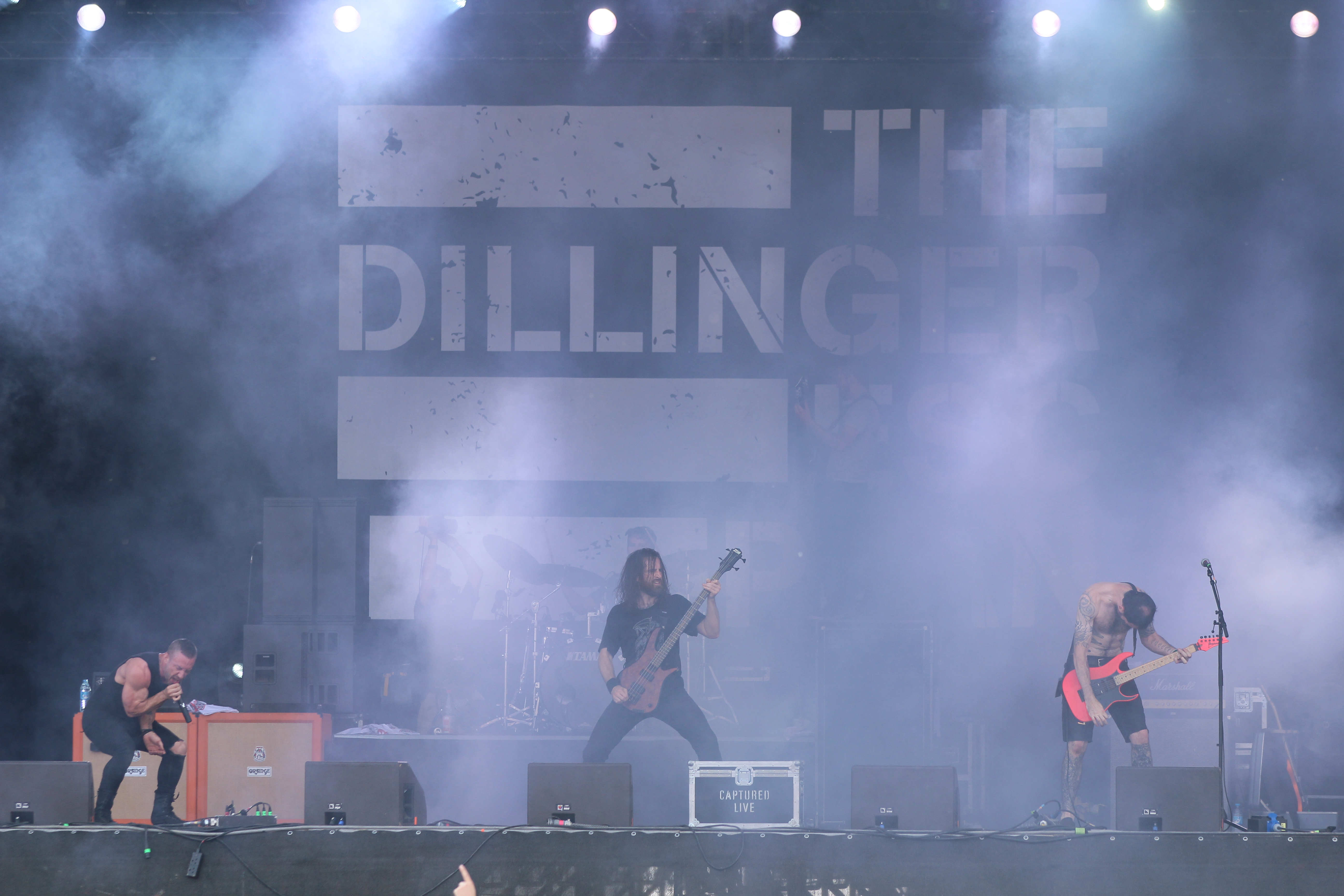 The American mathcore band The Dillinger Escape Plan at the With Full Force festival 2014 in Roitzschjora/Germany